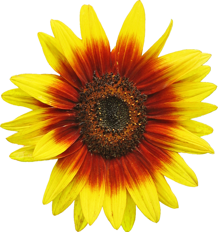 Sunflower (Helianthus annuus)